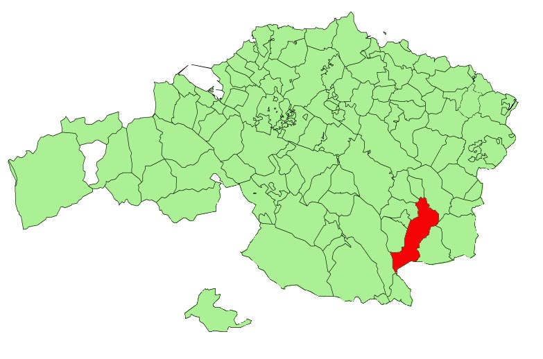 Abadiño municipality in the province of Biscay